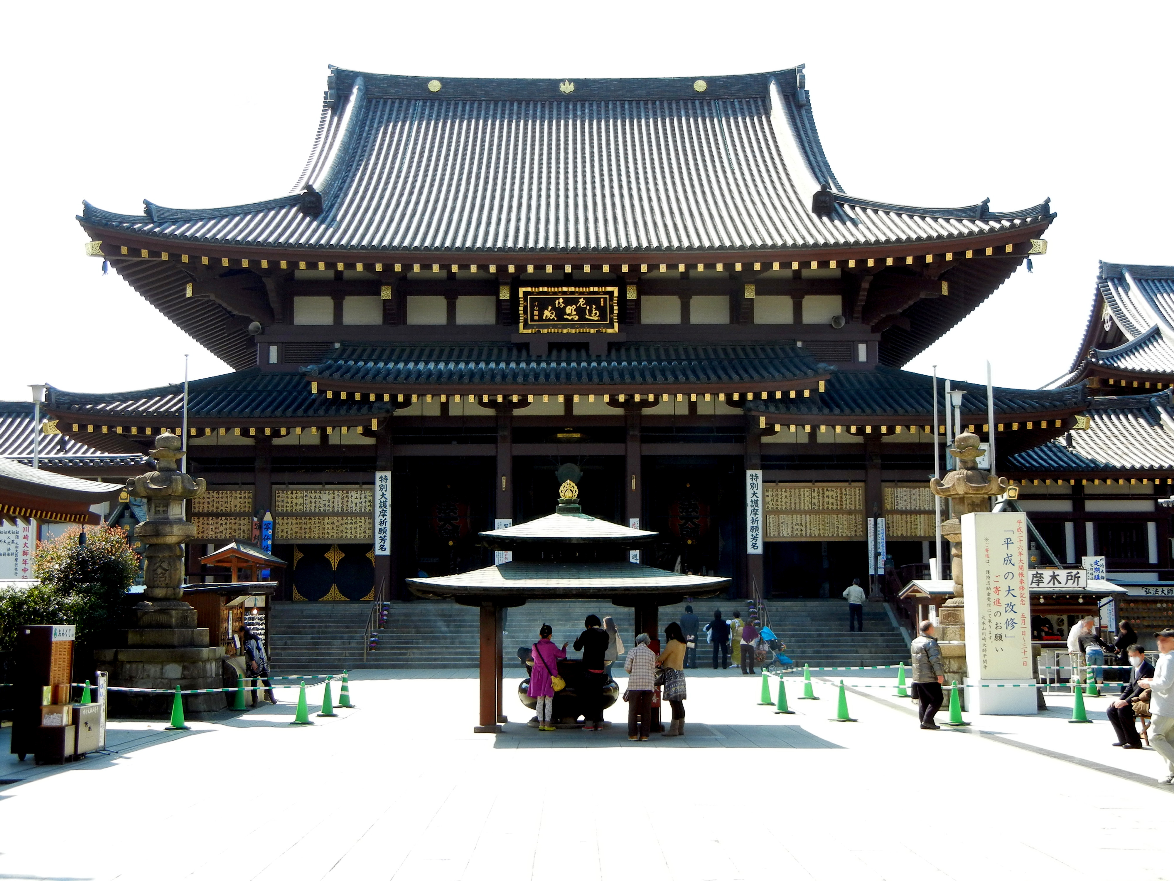 The Main Hall of Heiken-ji (Kawasaki Daishi) temple.